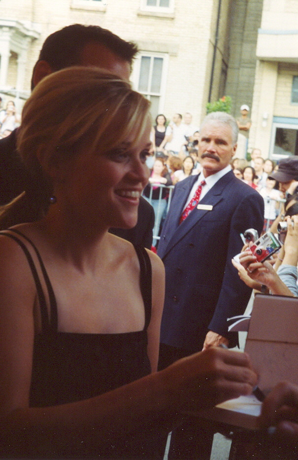 Reese Witherspoon signing autographs at the premiere of Walk The Line. Yes, the security guy looks alot like Burt Reynolds.